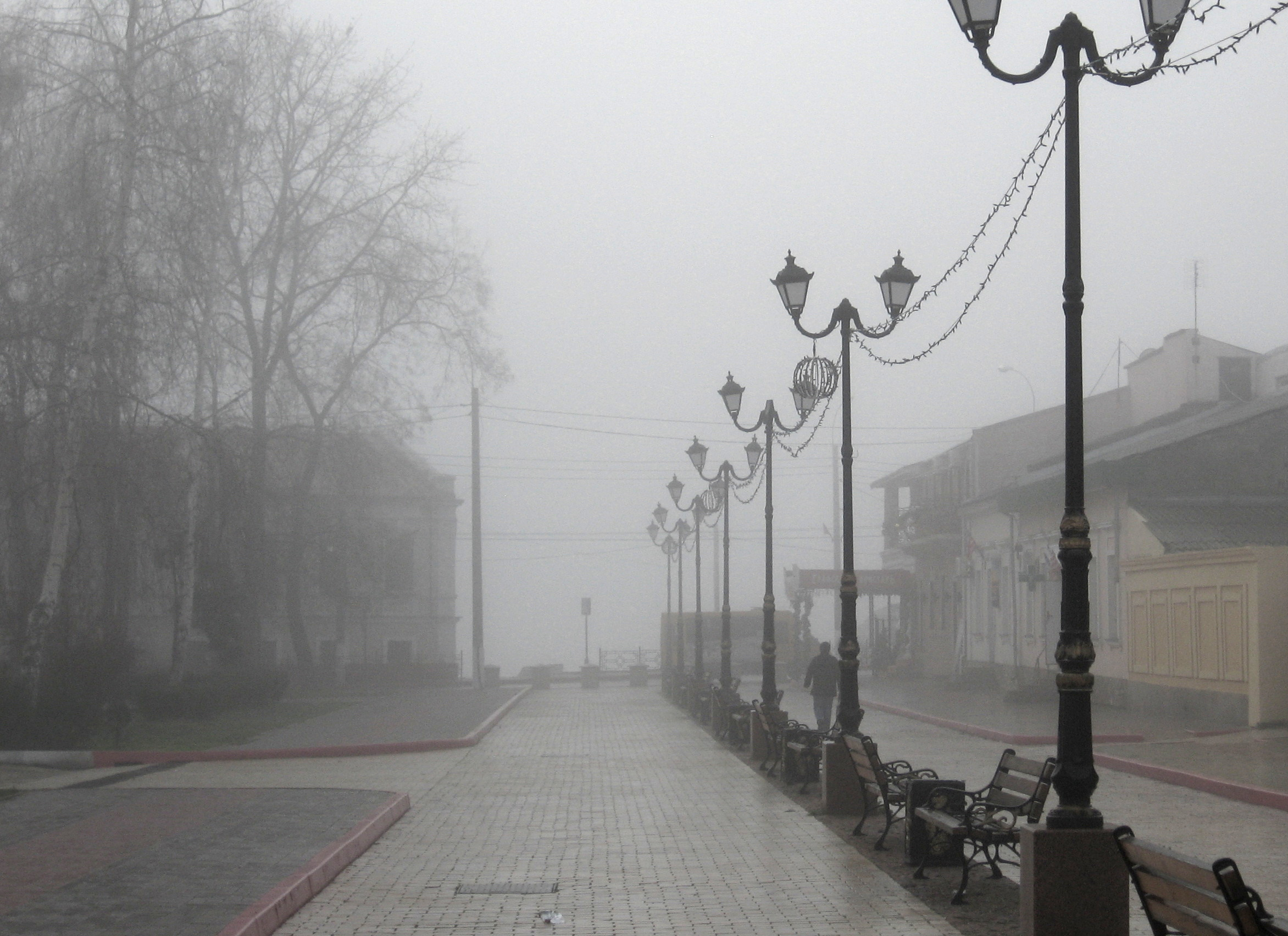 Foggy morning in Kerch